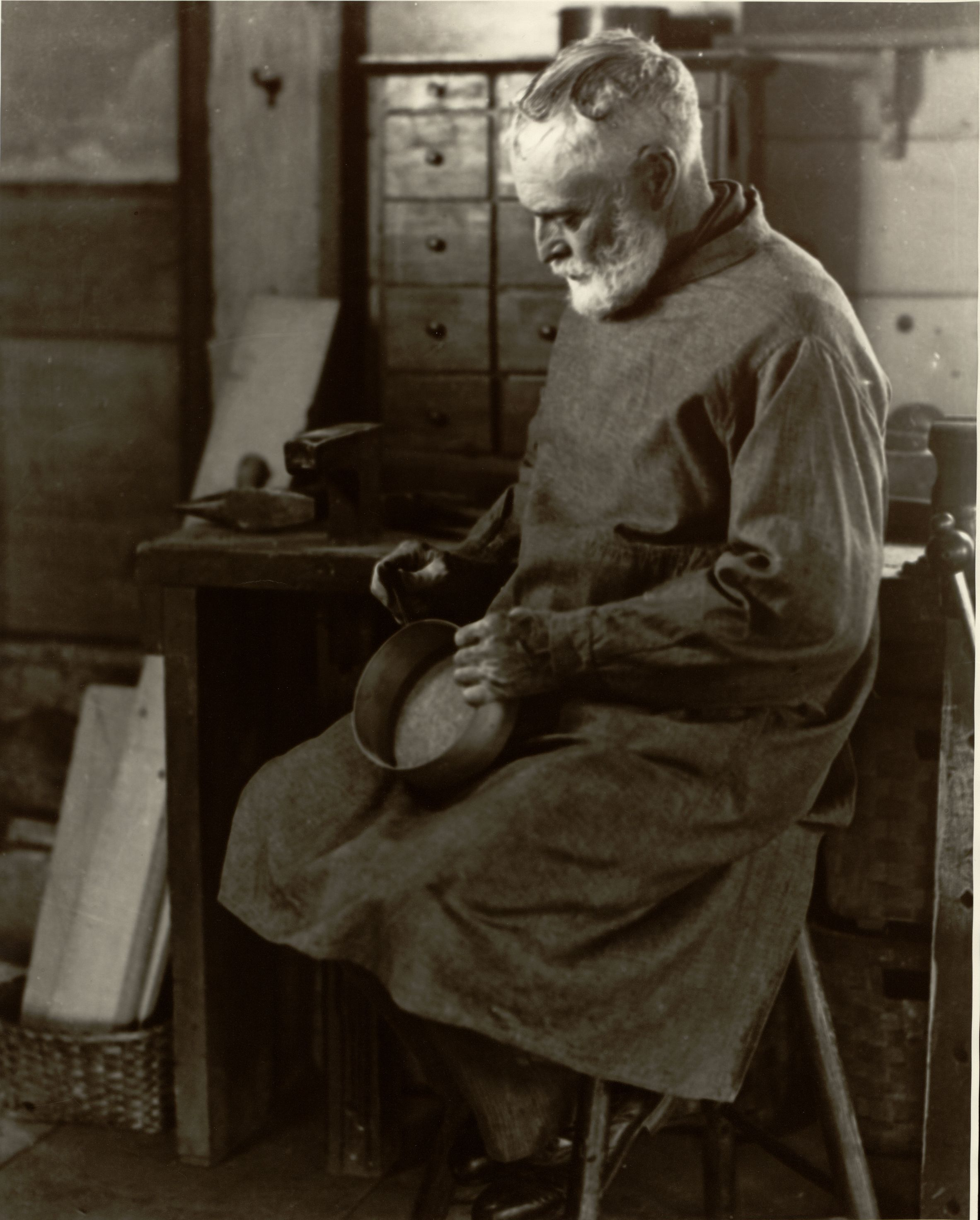 Shaker Brother Ricardo Belden, making wooden oval boxes in a workshop at the Hancock Shaker Village, near Pittsfield, Massachusetts.